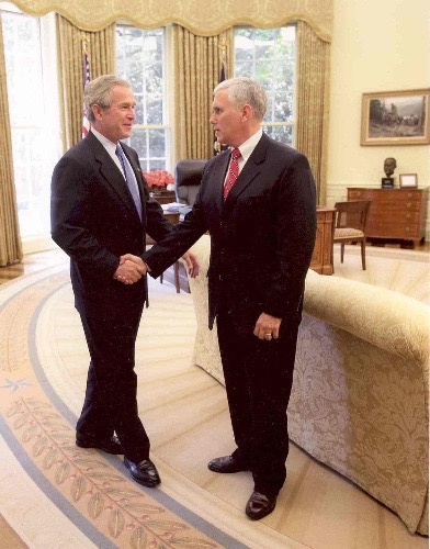 United States Representative Michael "Mike Pence" (R-IN) meeting with President George Walker Bush in the Oval Office.